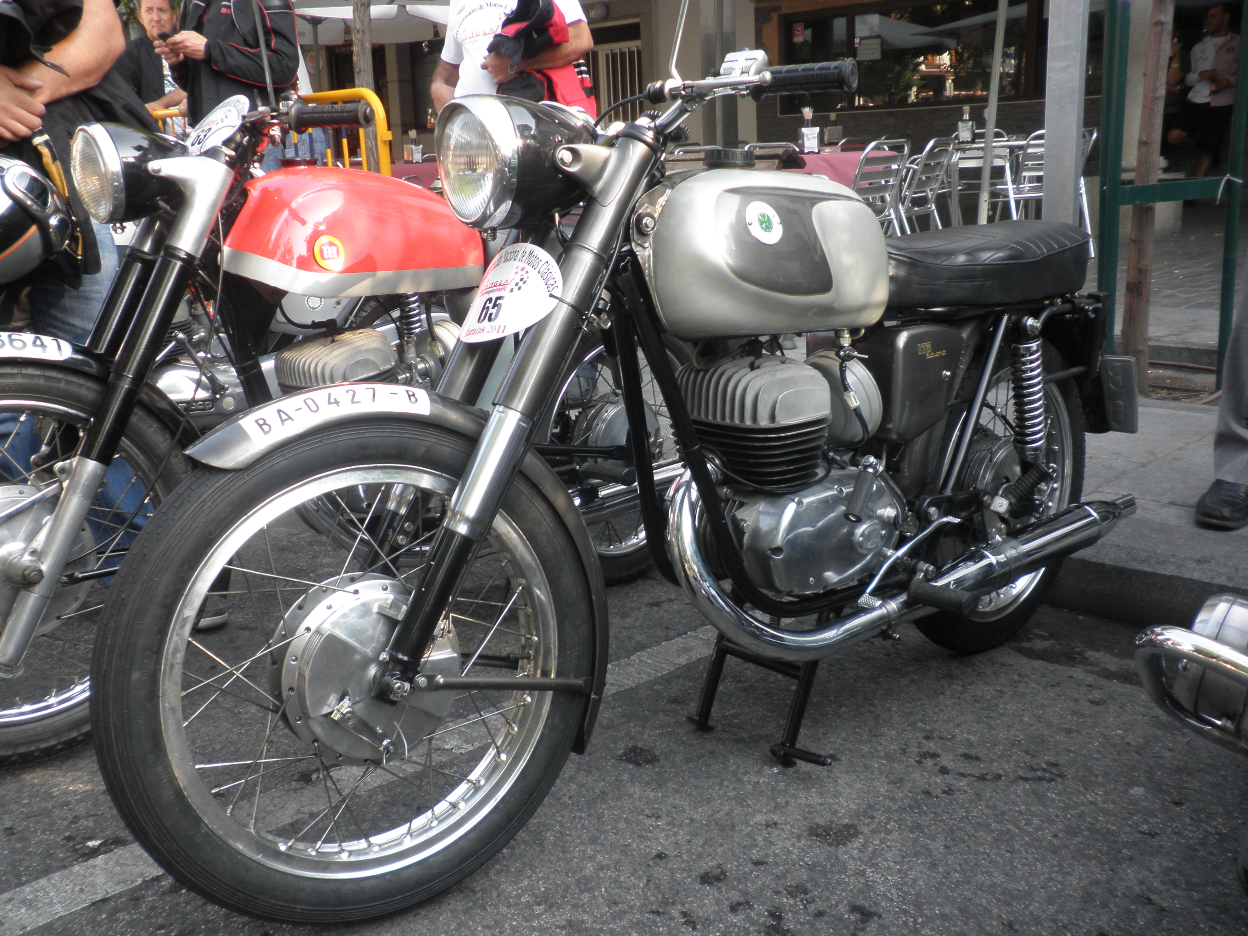 OSSA 175 Sport